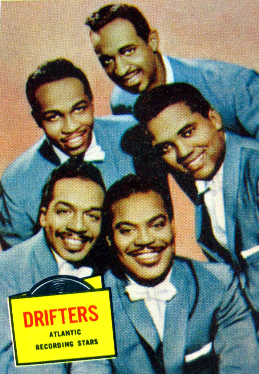 Trading card photo of The Drifters. In 1957, Topps gum cards issued a series of movie stars, television stars and recording stars. They were part of their recording stars cards.